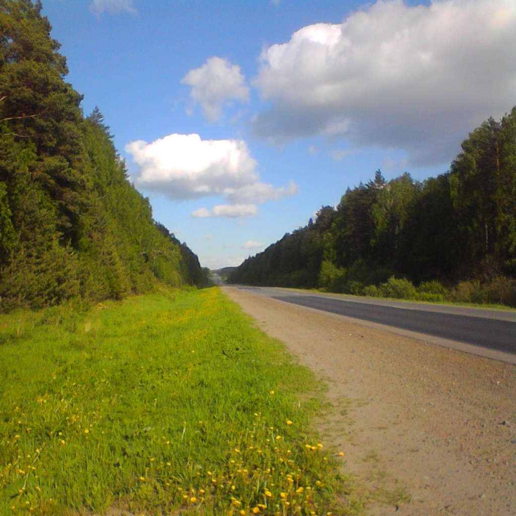 Urals Р351 route near Gryaznovskoe